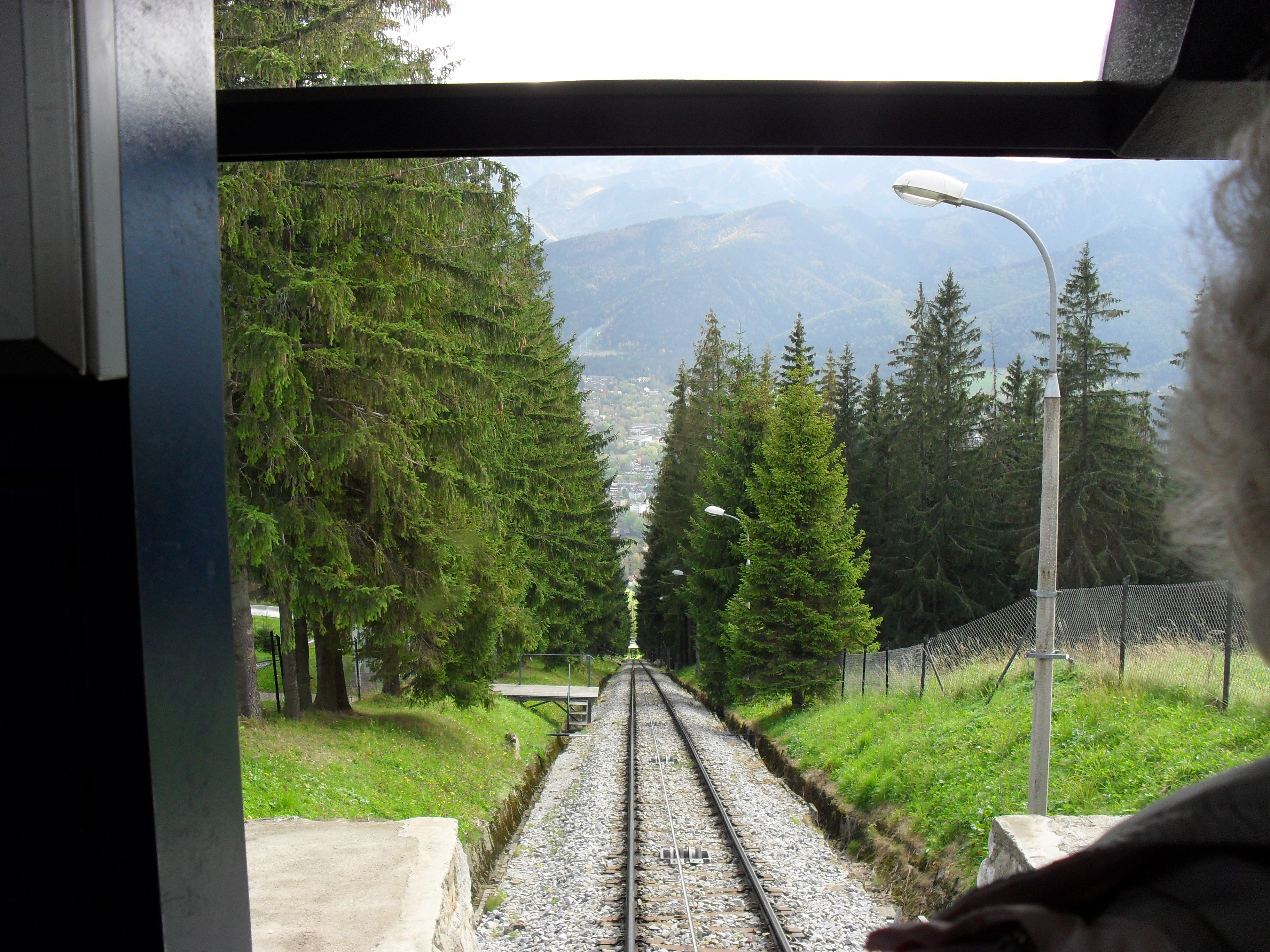 The Gubalowka Mountain funicular railway, Zakopane, Poland.